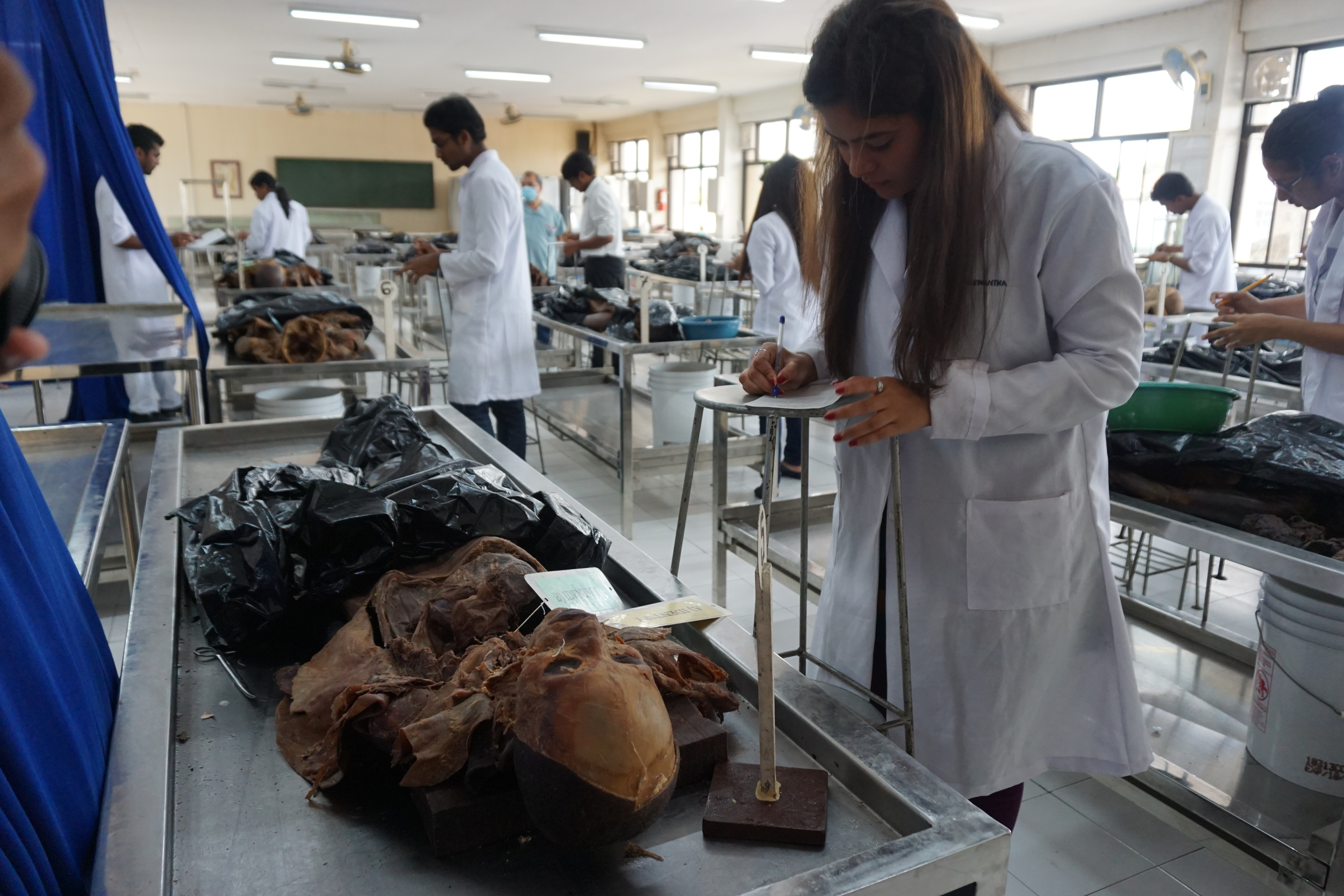 Anatomy lab of Transworld Educare Pune campus